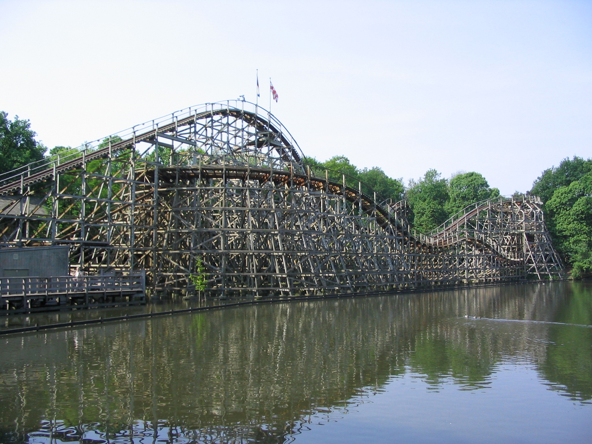 Roller Coaster Pegasus in Efteling